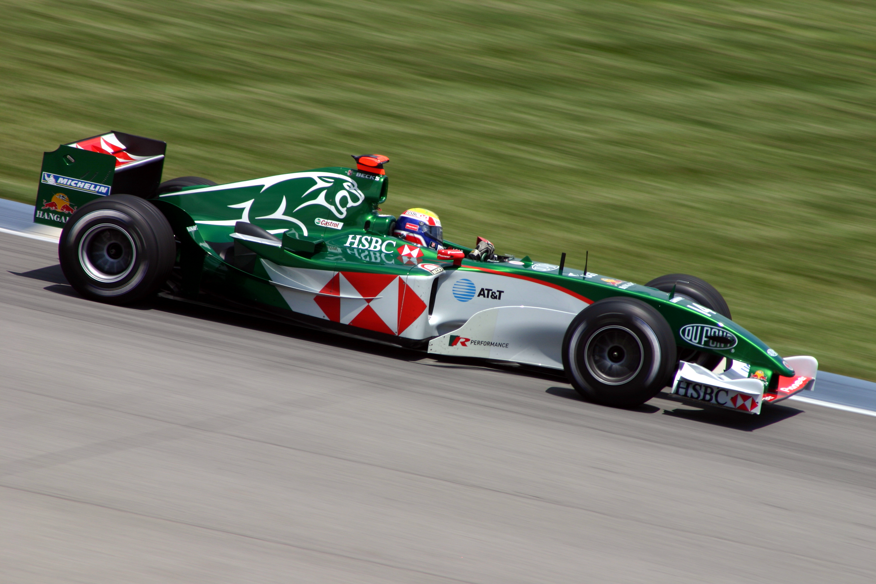 Mark Webber, USGP, Indianapolis, 2004